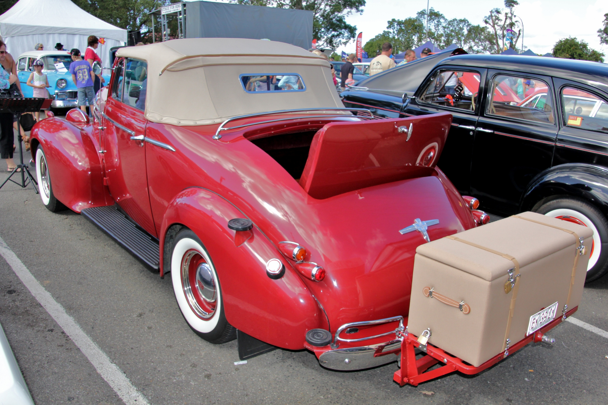 1939 Oldsmobile Series 60 Sports Roadster. Bodywork by Holden. Believed to be the only remaining example of this body style. Taken at the 2012 Kurri Kurri Nostalgia Festival, held in Kurri Kurri, New South Wales.